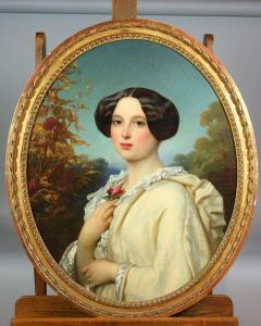 Portrait of a Woman